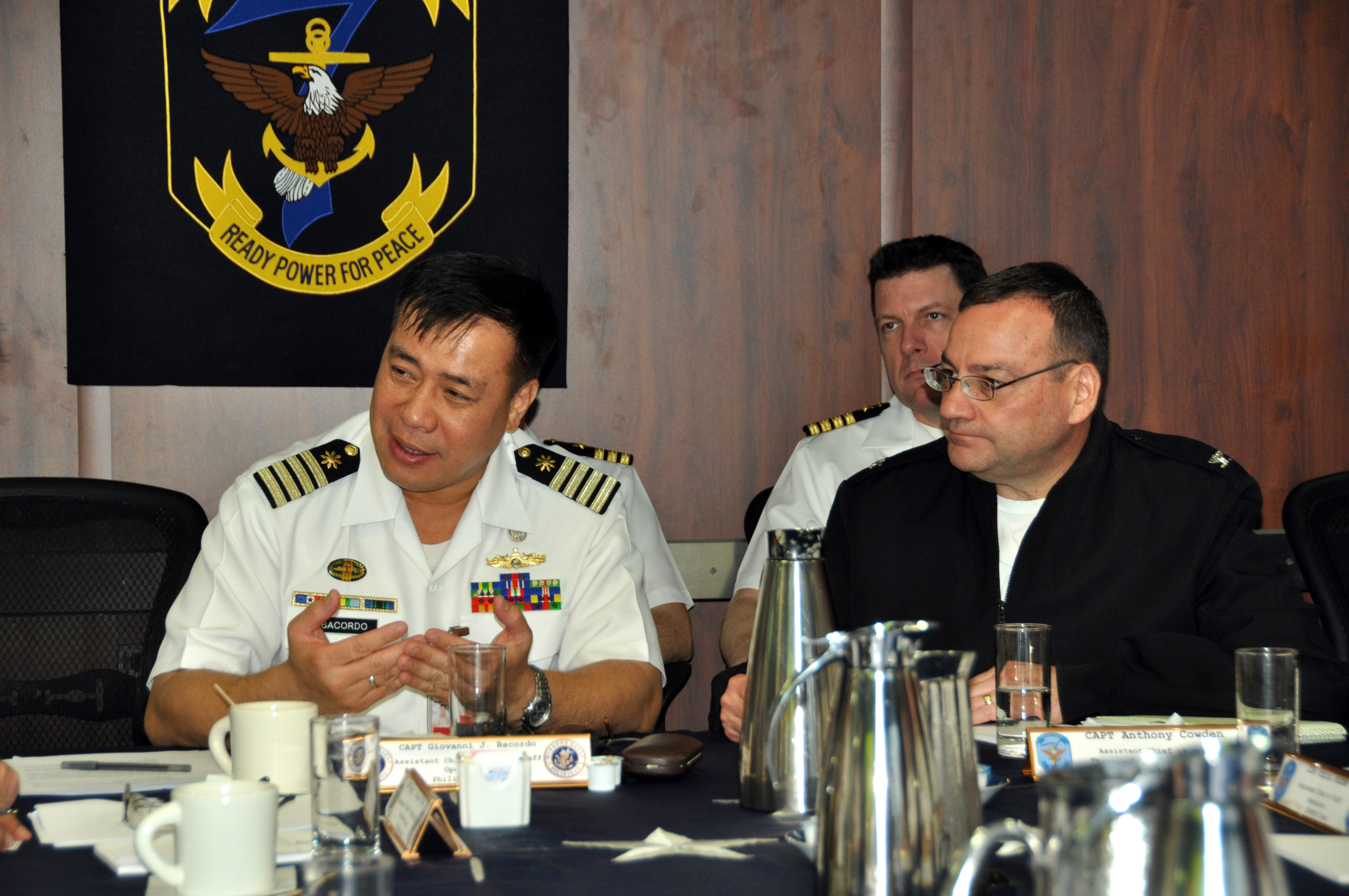 140319-N-ZZ999-002 MANILA, Republic of the Philippines (March 19, 2014)– Capt. Giovanni Bacordo, general staff course officer for the Philippines Navy, left, speaks along side Capt. Tony Cowden, 7th Fleet Theater Security Cooperation (TSC) officer, during a joint ‘Staff Talks’ exchange on board the U.S. 7th Fleet flagship USS Blue Ridge (LCC 19). Blue Ridge andembarked 7th Fleet staff visited Manila during a Spring patrol operating forward, building maritime partnerships and conducting security and stability operations. (Philippines Navy photo by Seaman 2nd Class Jessie D Cerenio)